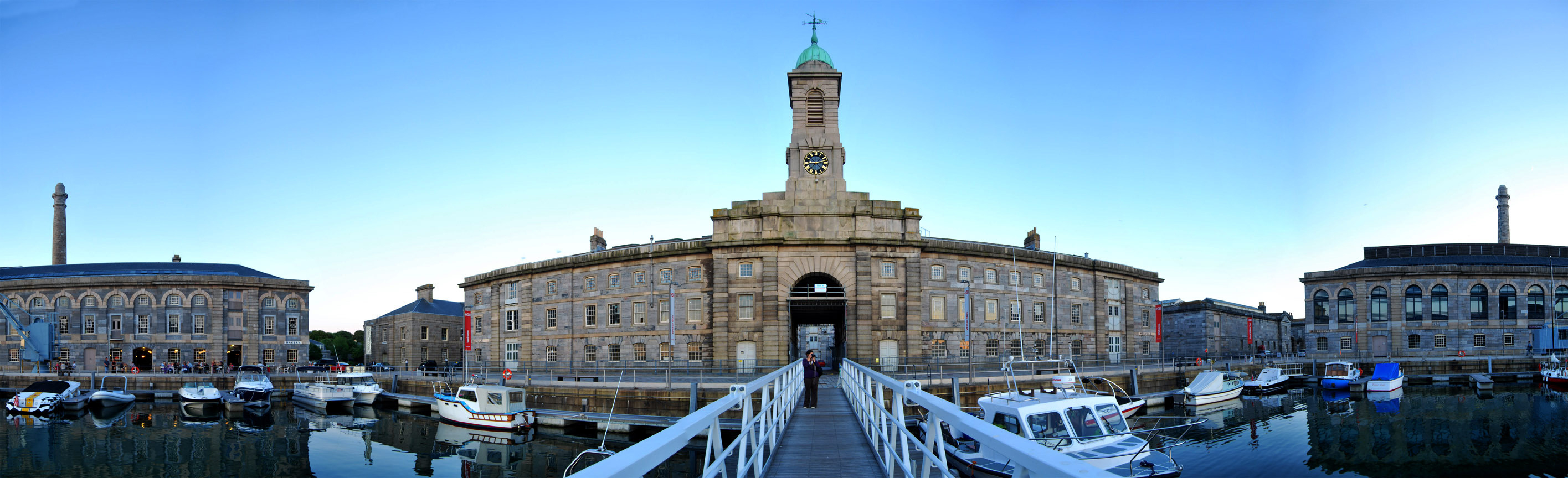 Panorama of the the main dock in the Royal William Yard, Plymouth, UK.